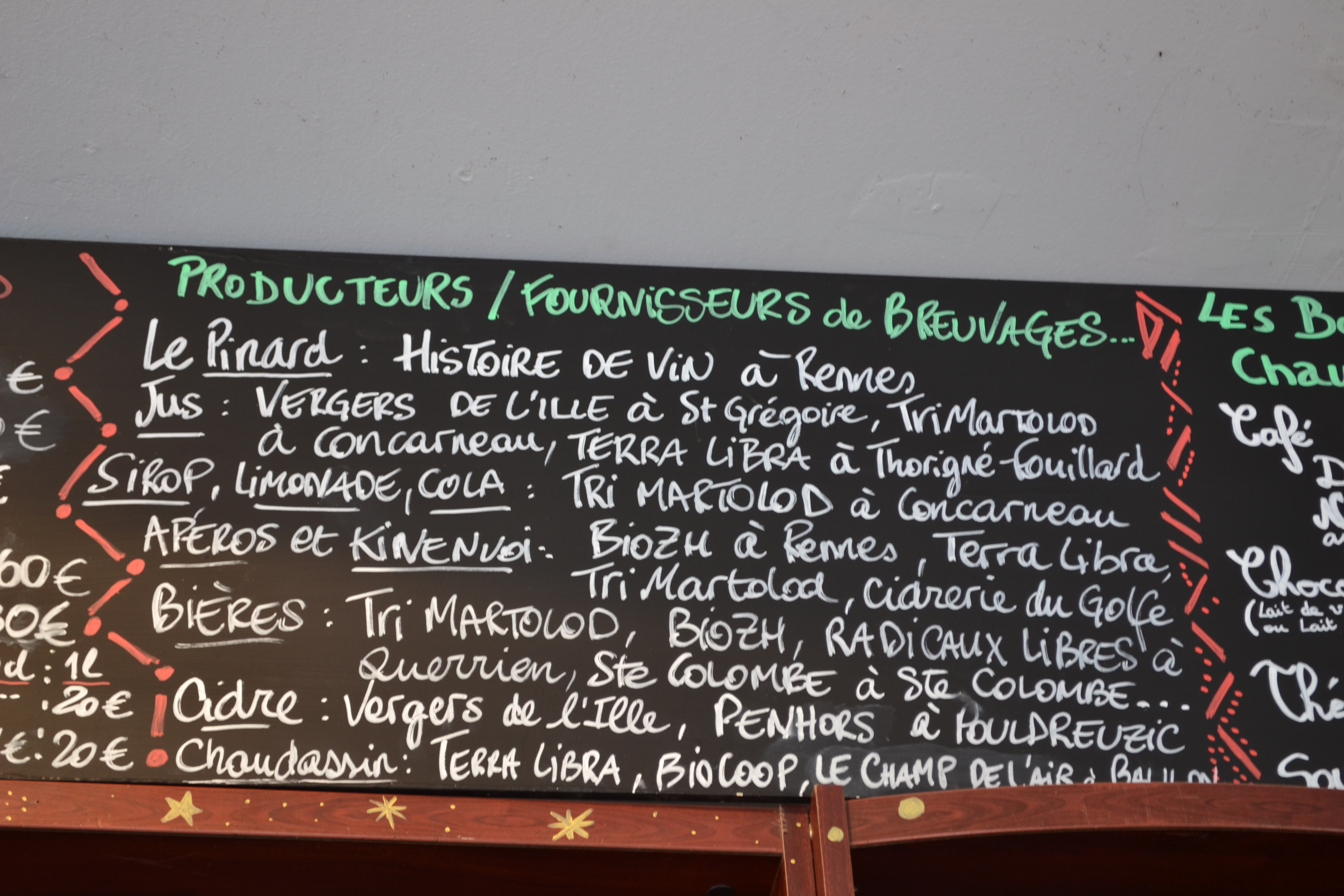 Description of the origin of the (local) products in the bar La Vie Enchantiée in Rennes (France).